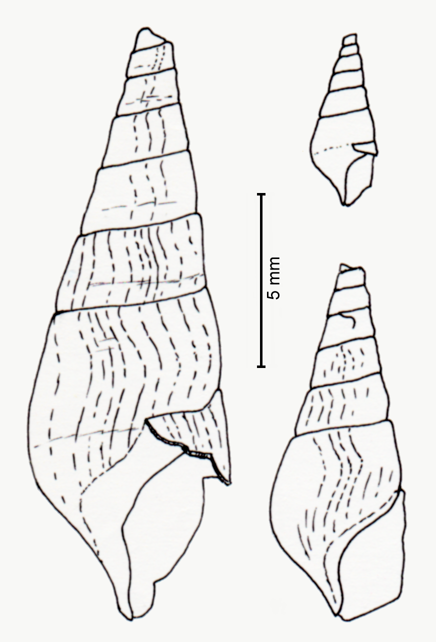 Fagotia wuesti - Extinct freshwater prosobranch snail species from late Early Pleistocene deposits in Bavel, The Netherlands; Age: Bavel Interglacial.